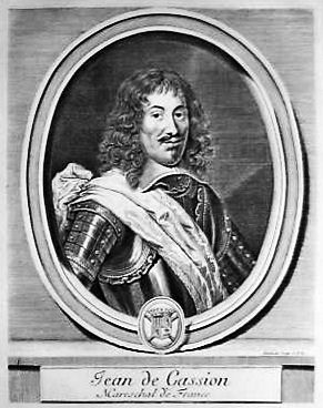 Jean de Gassion, printing of Ederlinck, 18th century